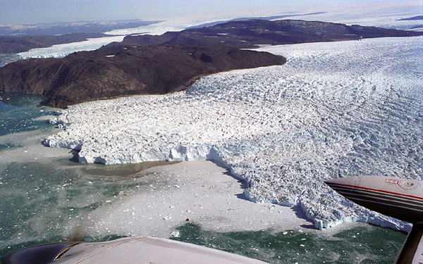 Torssukatak Fjord, Diskobay, West Greenland. Seen from 3000ft altitude.